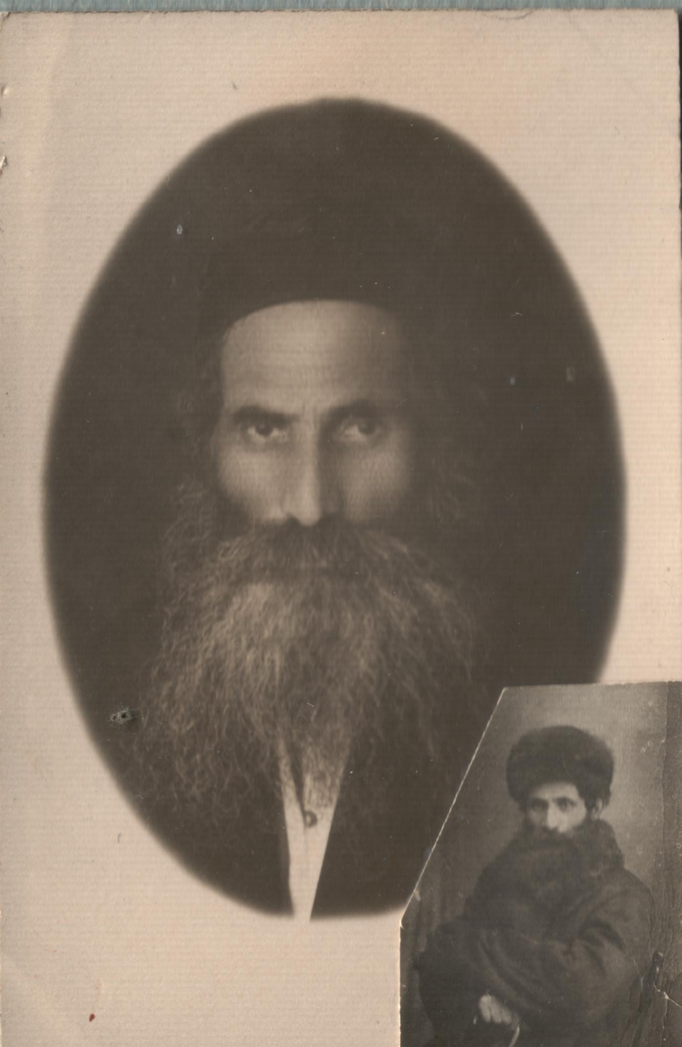 Rabbi Menachem Nachum ben Jacov; Nuchim Jankelevich Weisbaltt , Kiev